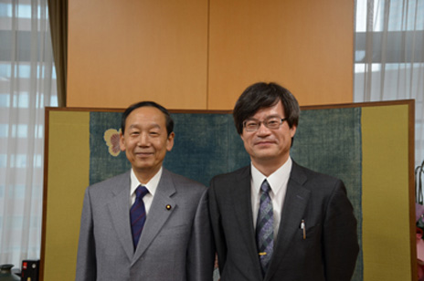 Hiroshi Amano, Director of Akasaki Research Center, Nagoya University, met Shun'ichi Yamaguchi, Minister of State for Science and Technology Policy, in Japan on November 12, 2014.